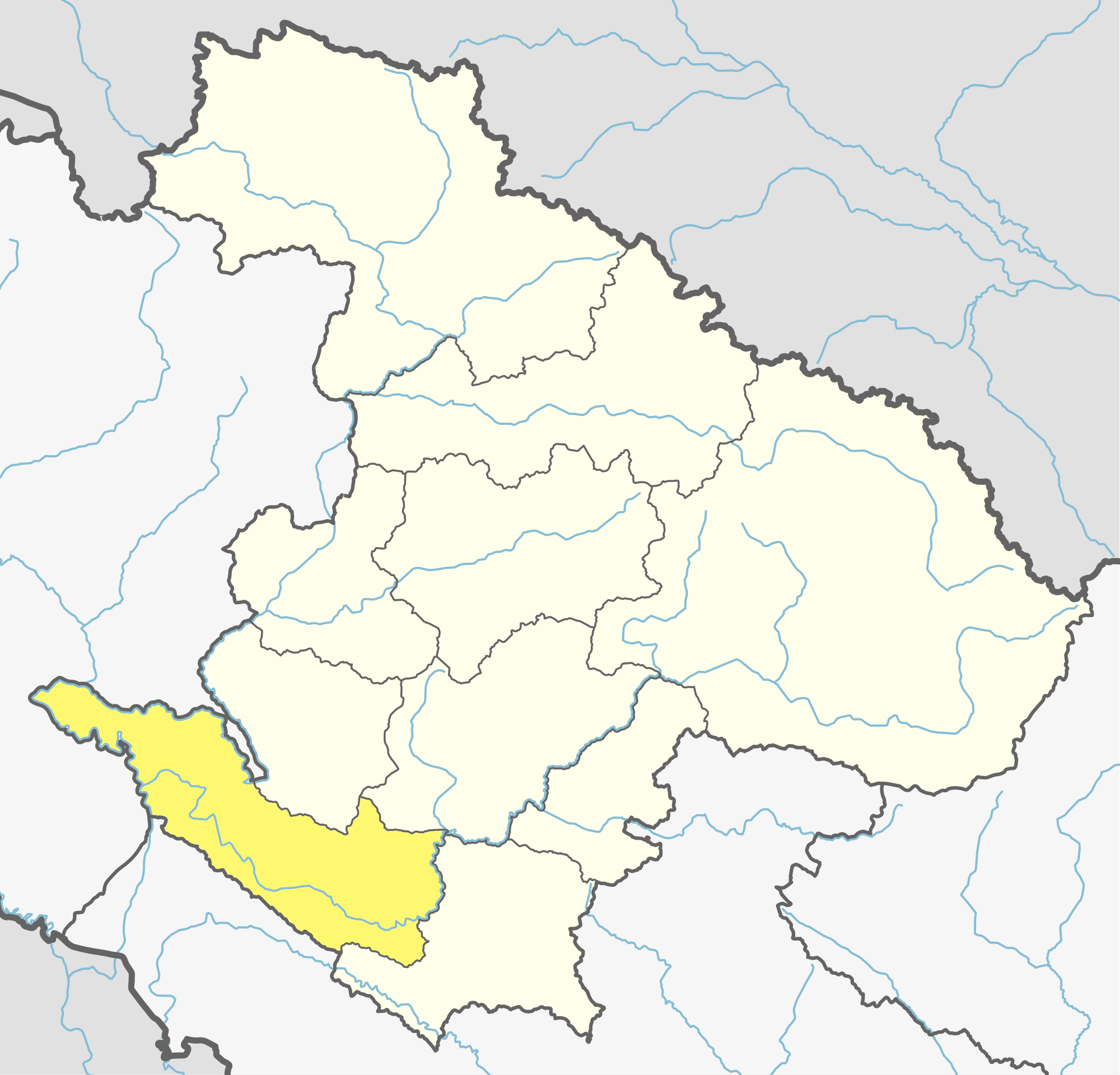 Surkhet District